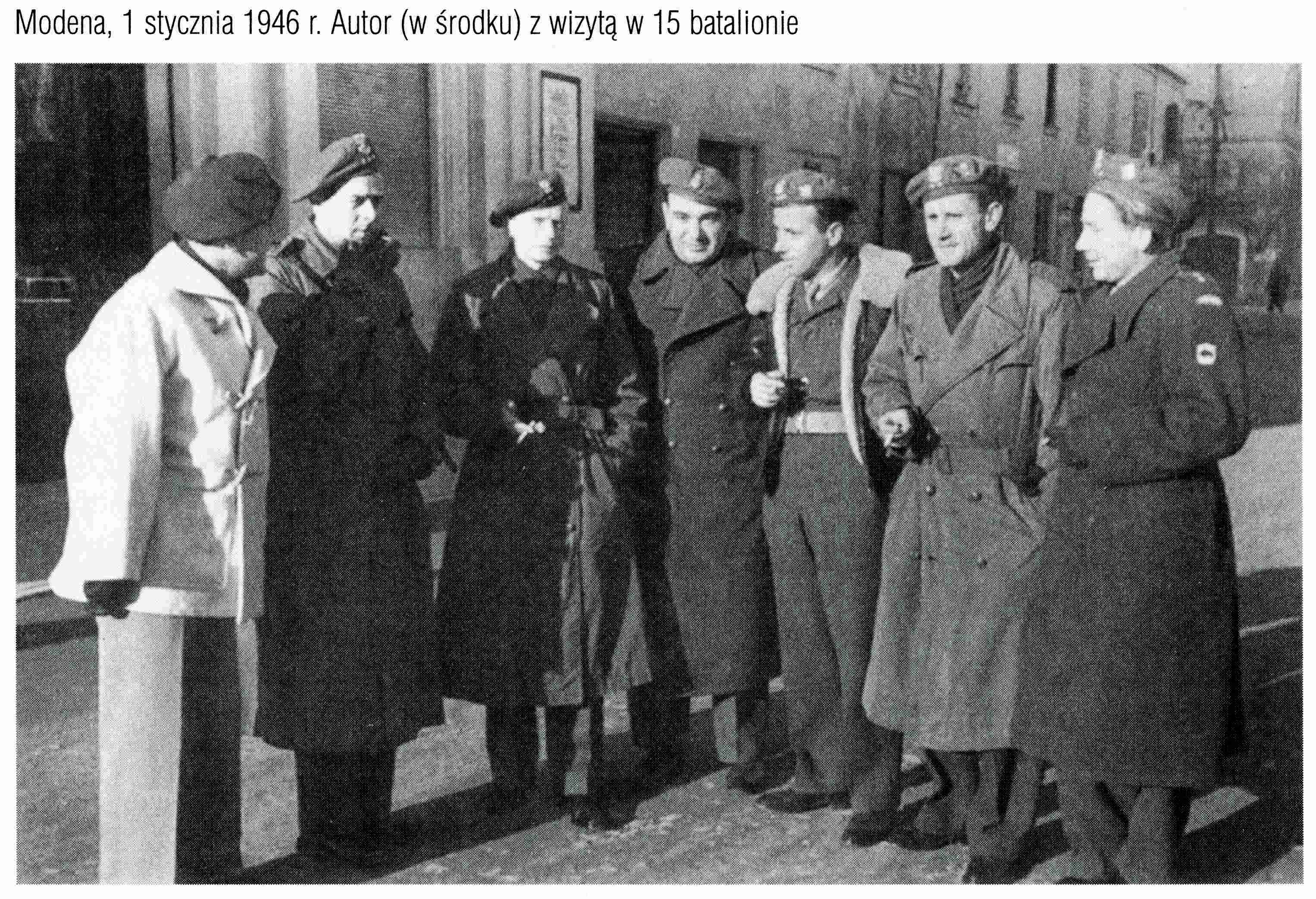 Description=Stefan Orzechowski (in centre) - visit to 15th Batalion of Polish Armed Forces, Modena, Italy, 1946 - photograph copy